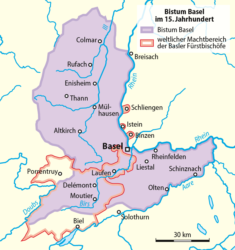 Map of Roman Catholic Diocese of Basel in the 15th century